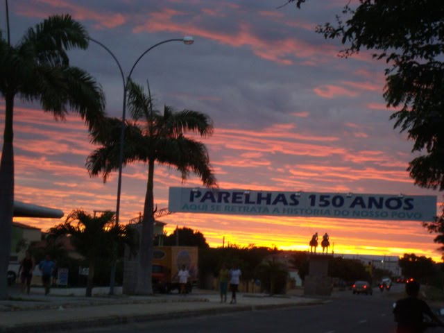 Sunset at the entrance to Parelhas / RN, overlooking the site of the 150 year old city, a little ahead of it a monument showing knights in "pairs" of horses, which gave rise to the name of the city.